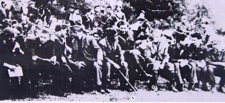 August 2, 1944, Monastir Prohor Pchinski where was held ASNOM: Some of the delegates on the First Assembly of ASNOM. This media file is produced by Wikipedian in Residence in Category:Wikipedian in Residence at DARM in 2016.